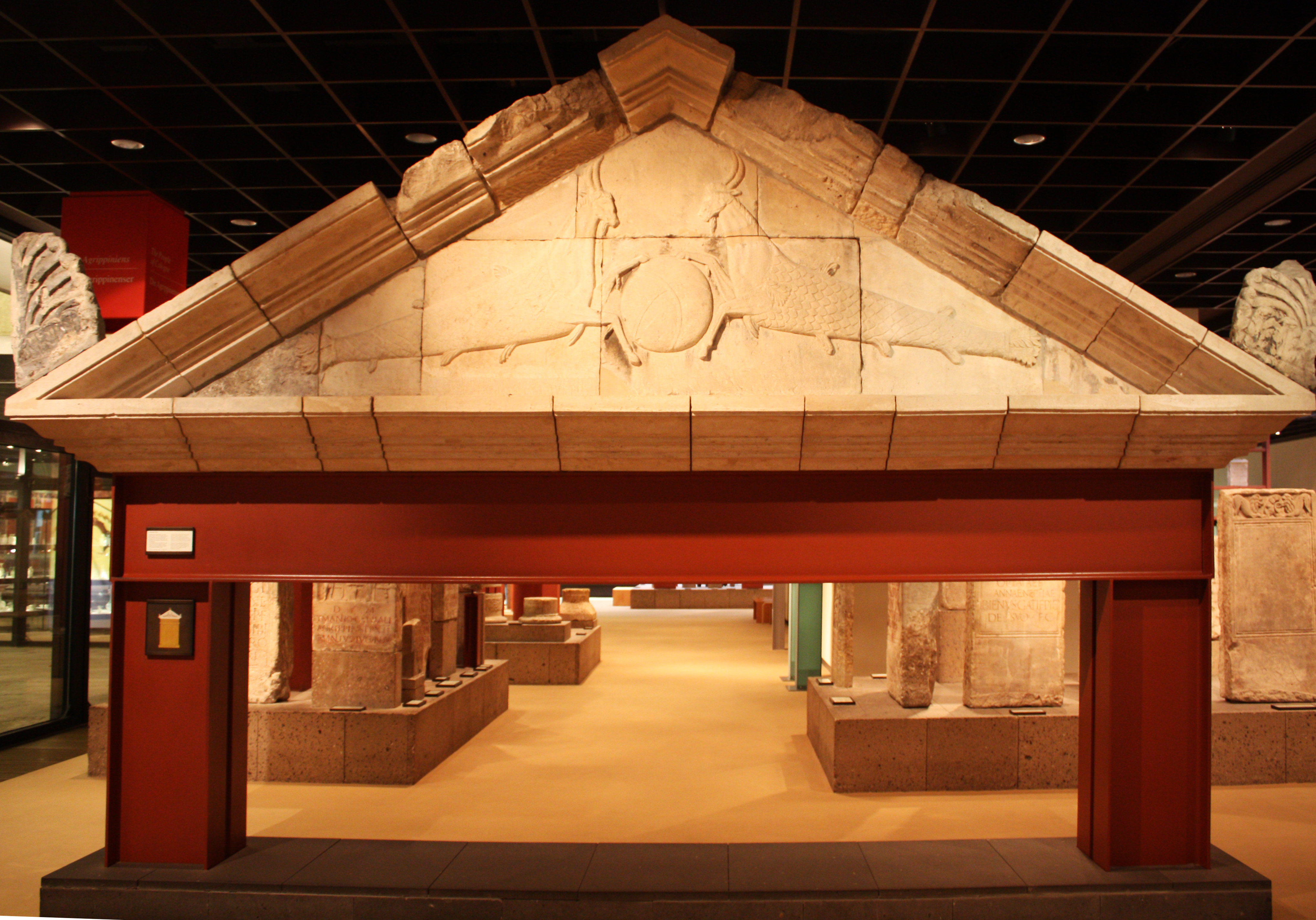 Tympanum of a funerary monument in the Römisch-Germanisches Museum in Cologne